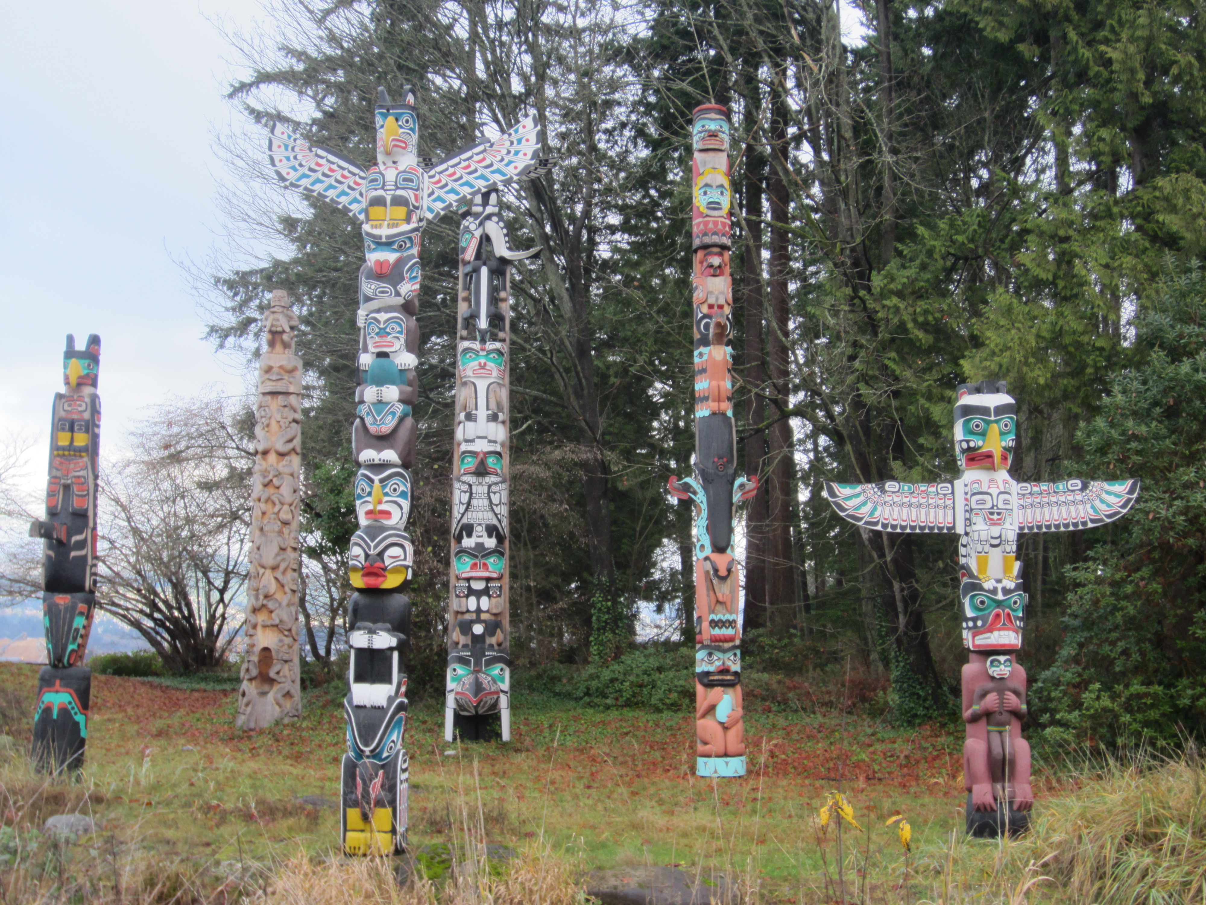 Totem poles at Stanley Park, Vancouver, British Columbia (2012)